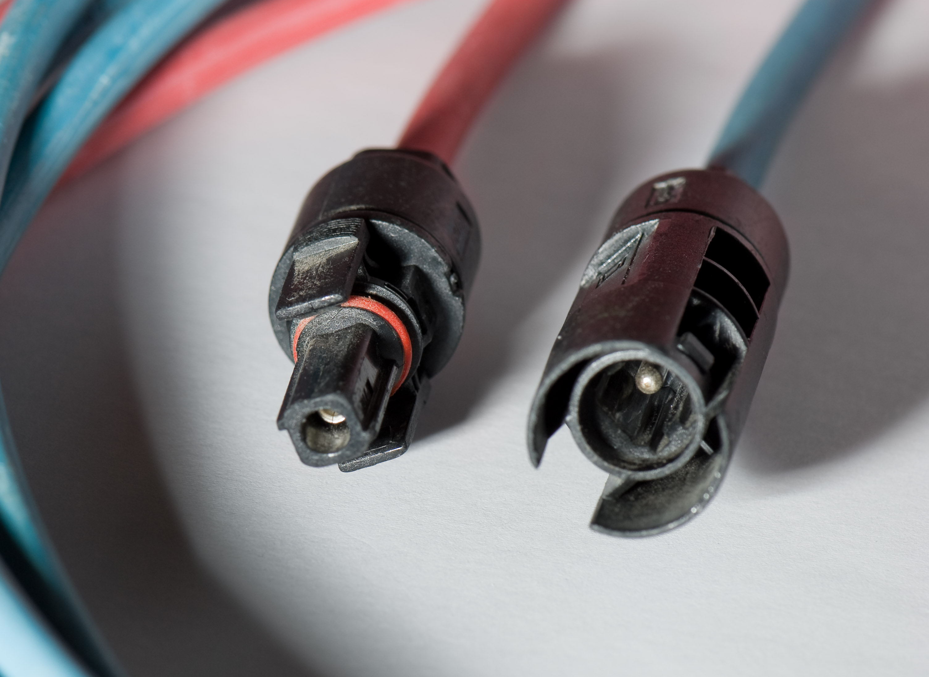 Female (left) and male weatherproof PV connectors. Connector type: cable coupler. These DC connectors are used with photovoltaic (PV) solar panels and junction boxes. Brand is unknown. Brands of PV connectors include: Tyco Solarlok JST WVL Series Hirschmann SunCon